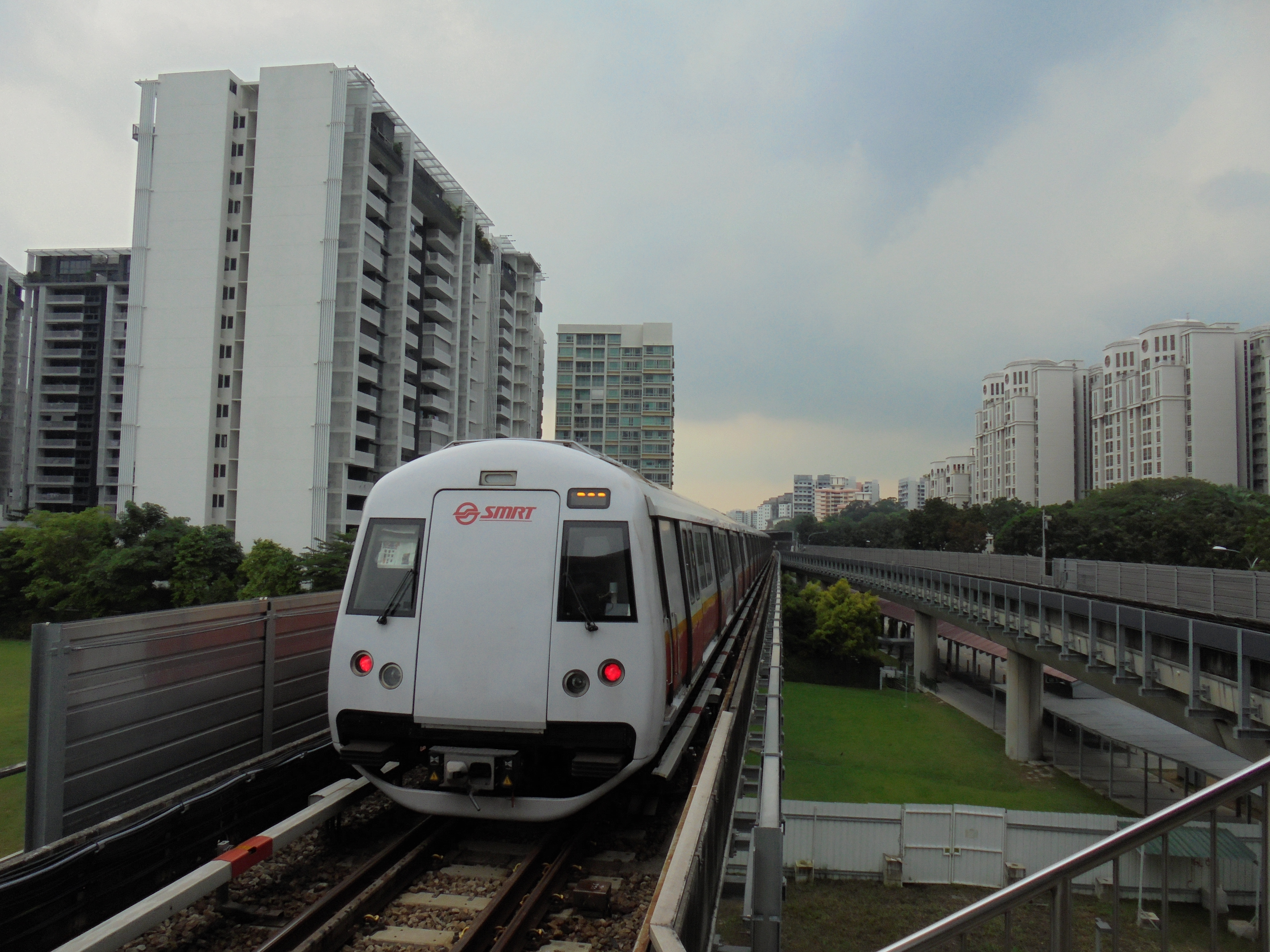 Kawasaki Heavy Industries & CSR Qingdao Sifang C151B Train on the East West MRT System